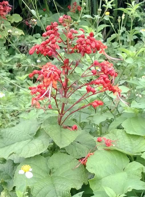 Clerodendrum japonicum flowers